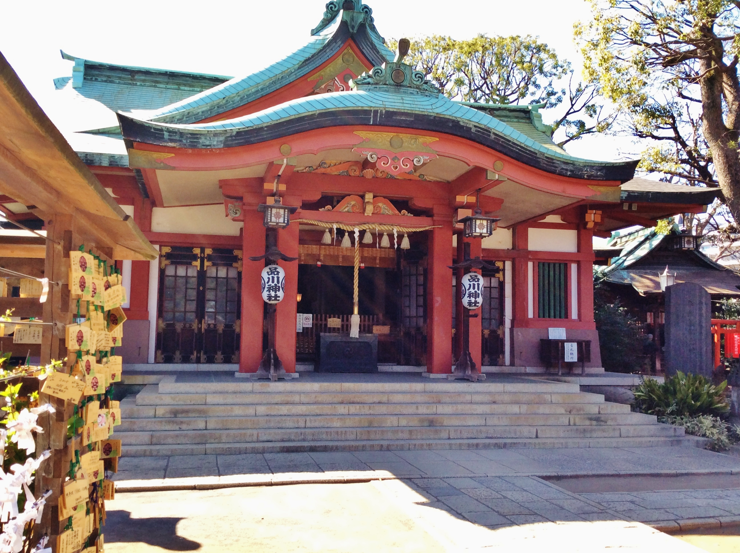 The main shrine of Shinagara Shrine, Shinagawa, Tokyo, built in 1187.